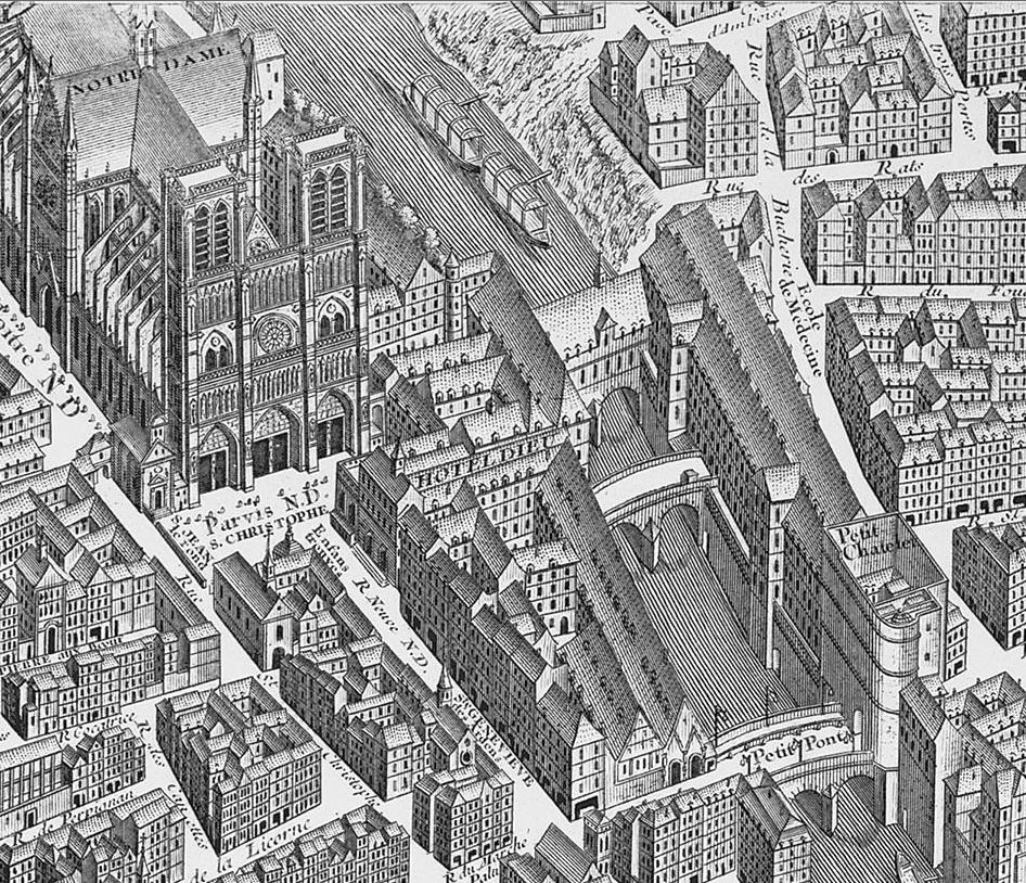 The hospital of Hôtel-Dieu on the map of Turgot. With the Notre-Dame cathedral, 3 bridges on the Seine river and the petit Châtelet.